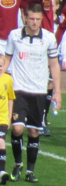 Pictured during the 2-2 draw between Port Vale and Northampton Town on 20 April 2013.